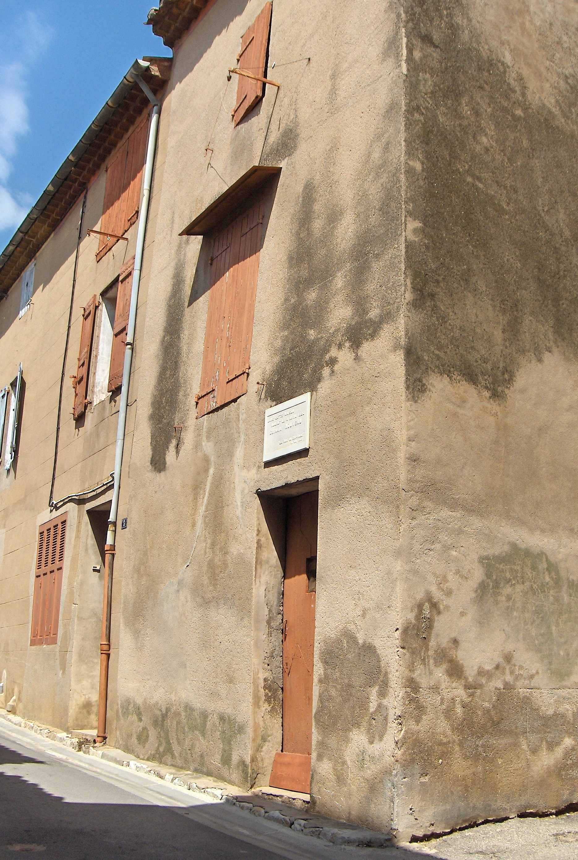 Germain Nouveau’s house in Pourrières where he died on April 4, 1920 (France)